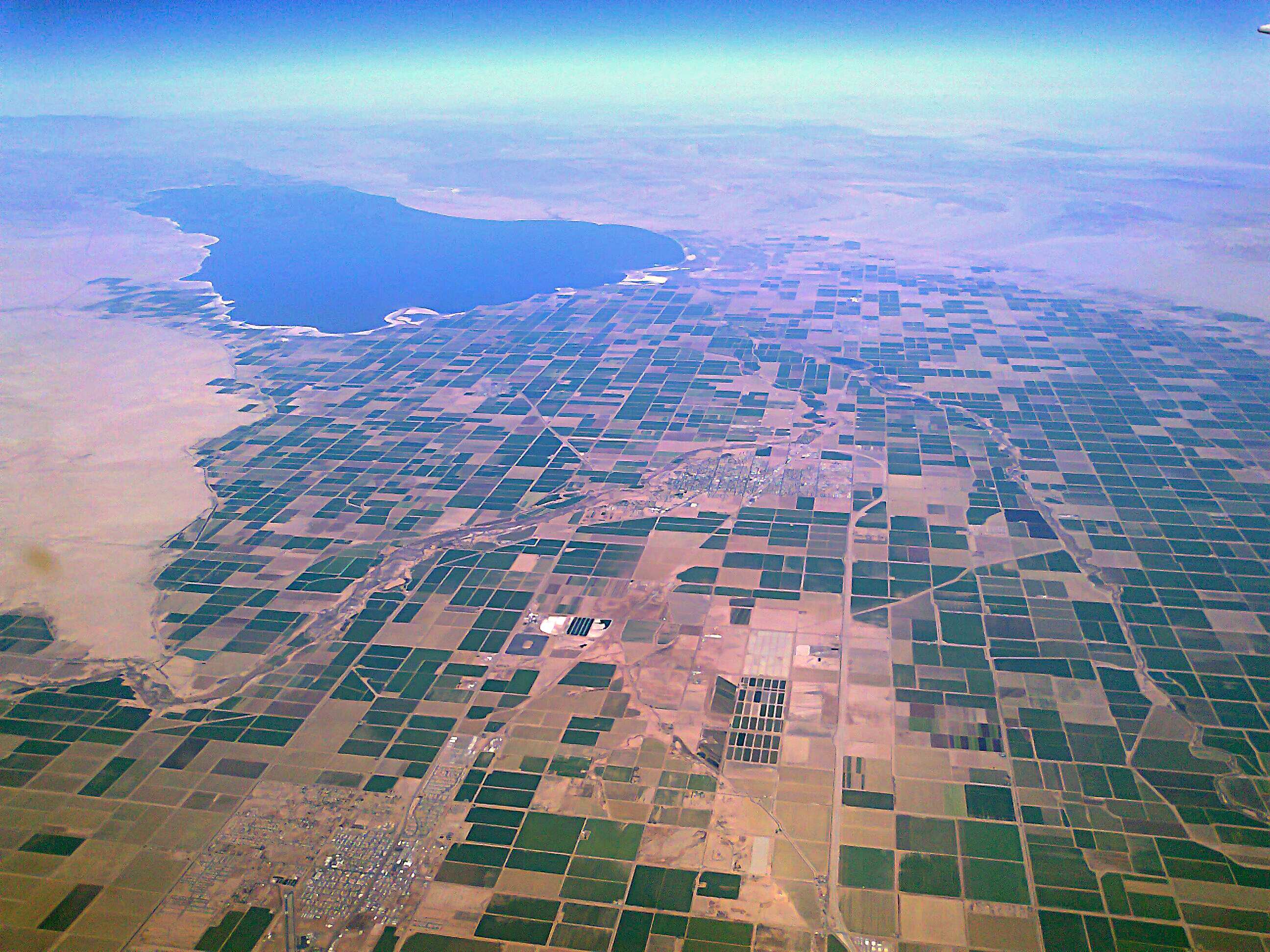 Ariel photo of the Salton Sea from the south